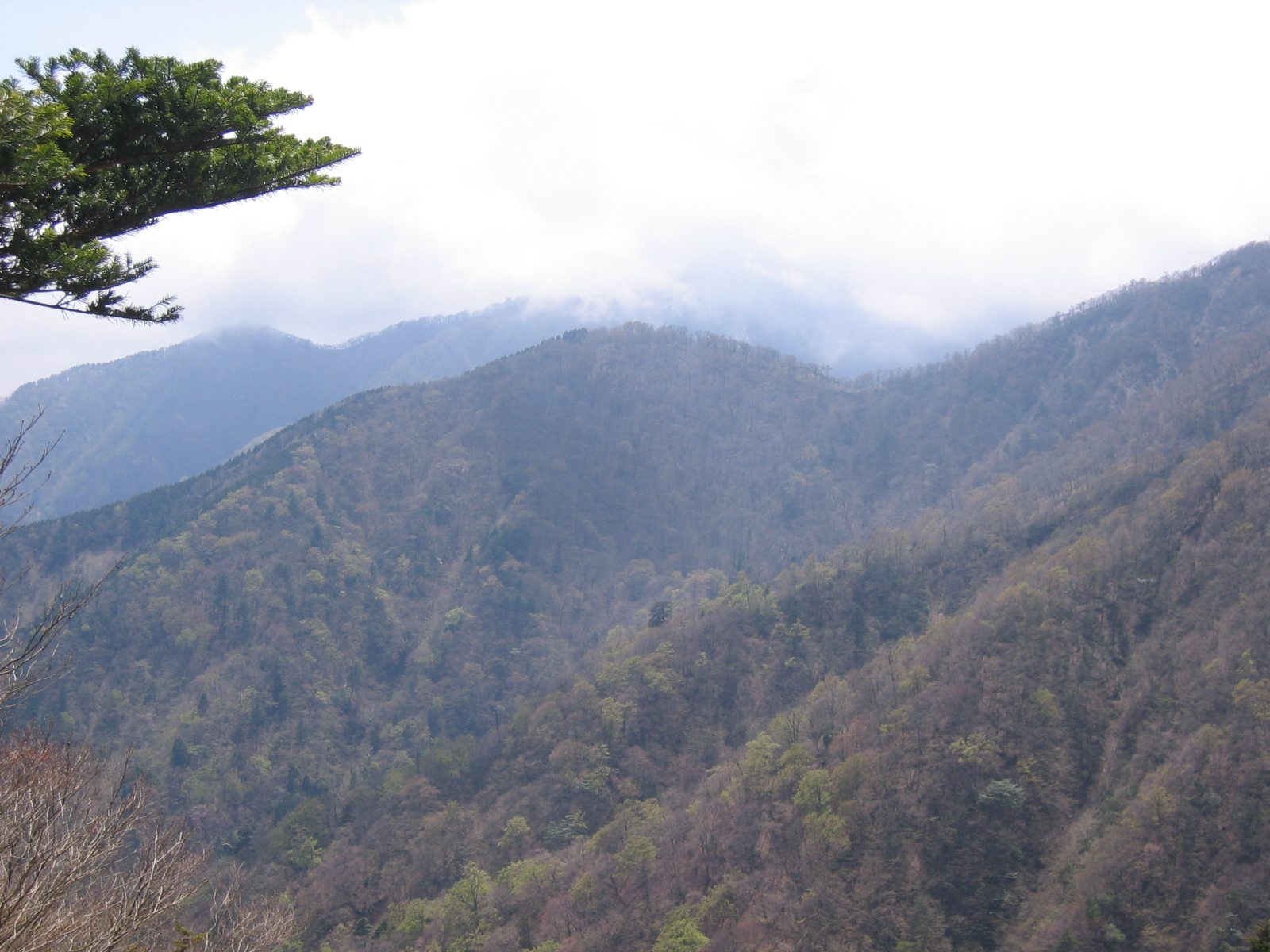 Mt.Sankakusawanoatama from Tennōji-ridge (天王寺尾根 Tennōji-one), Mts.Tanzawa, Honshū, Japan.